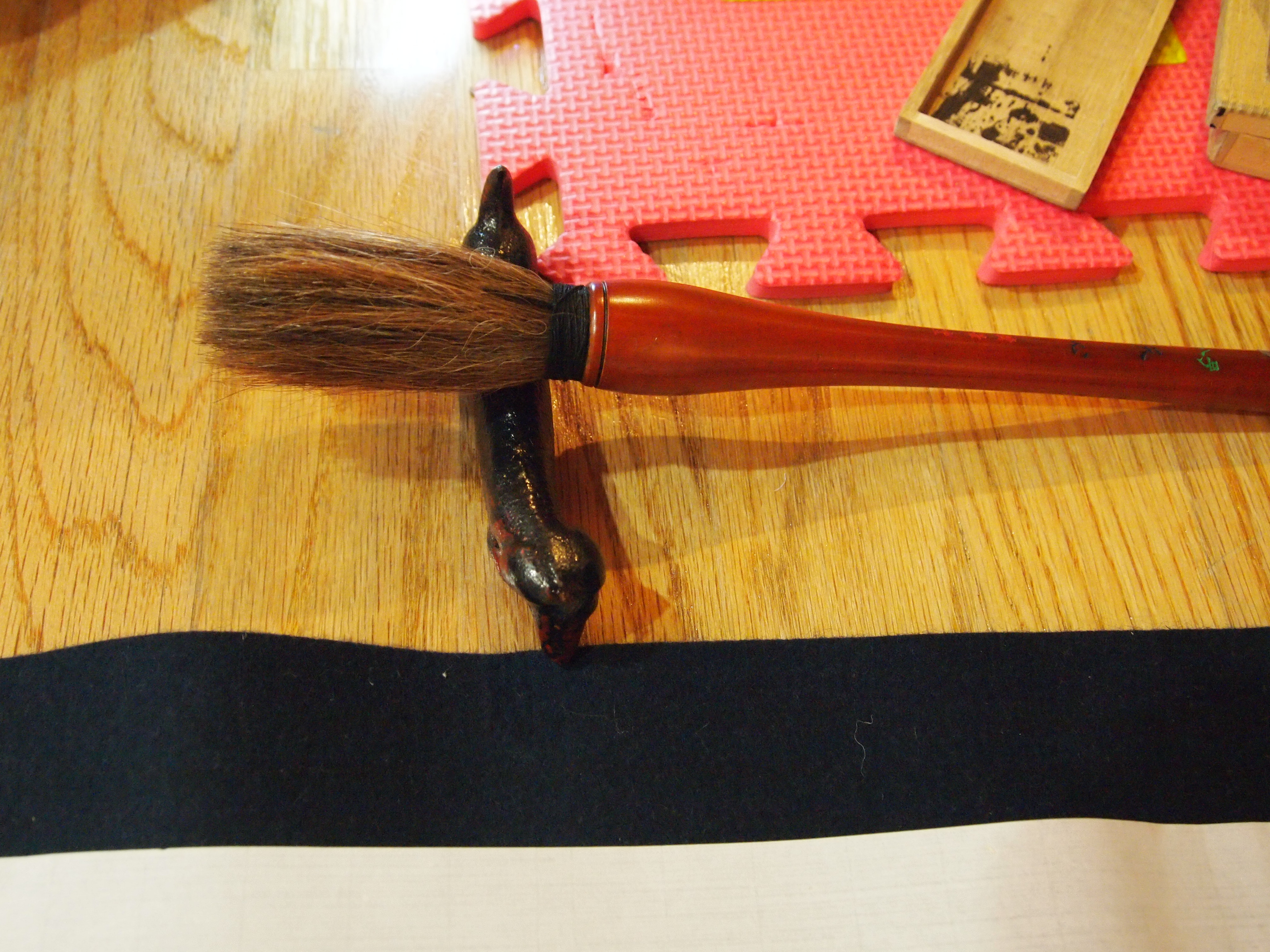 This is a larger, thicker brush used on larger drawings.